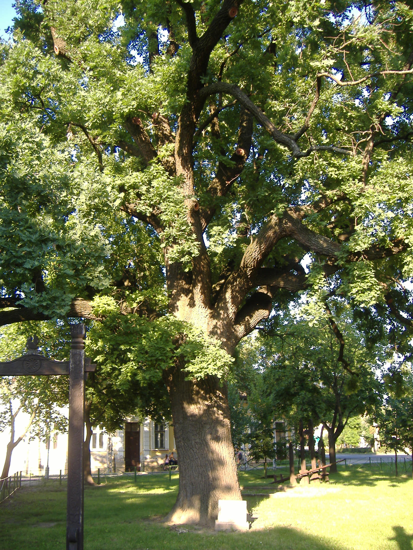 A Pedunculate Oak (Quercus robur), planted in 1810, named Juhász Gyula memorial tree after the Hungarian poet in Makó, Hungary.